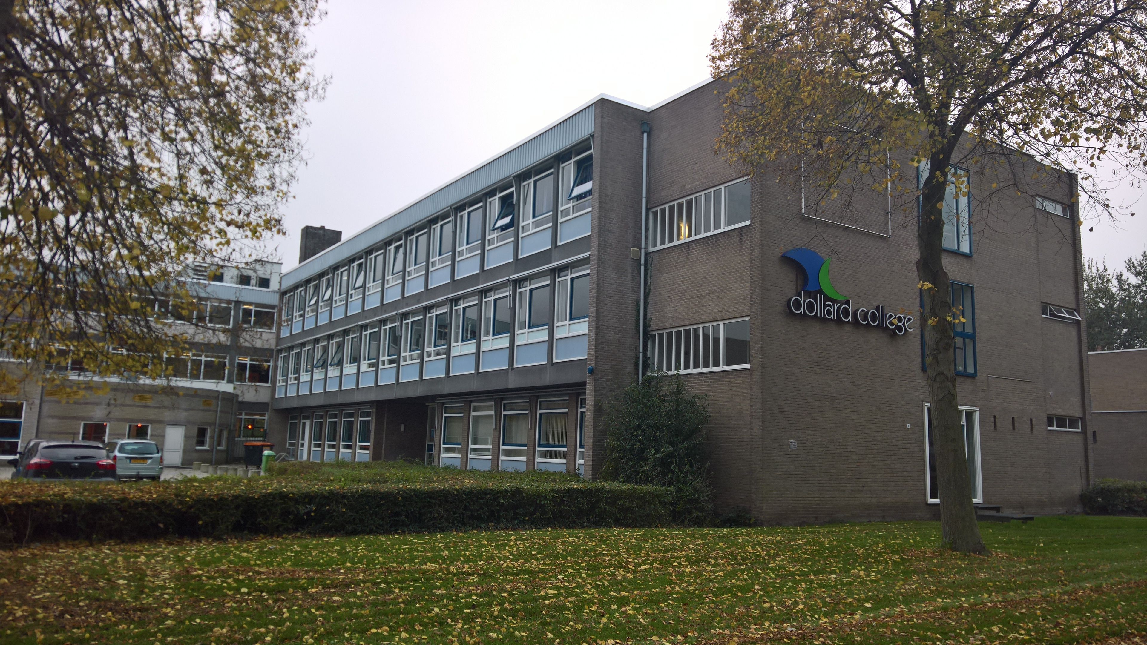 A view of the Dollard College in the D.U. Stikkelaan in Winschoten, Groningen.